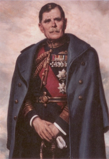 Image of Marshal of the RAF Hugh Trenchard, First Viscount Trenchard in RAF full dress and greatcoat. The full version of this portrait used to hang in the Air Council room at the Air Ministry.[1]